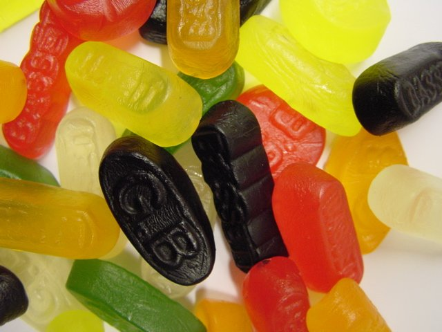 An assortment of Bassett's Winegums.